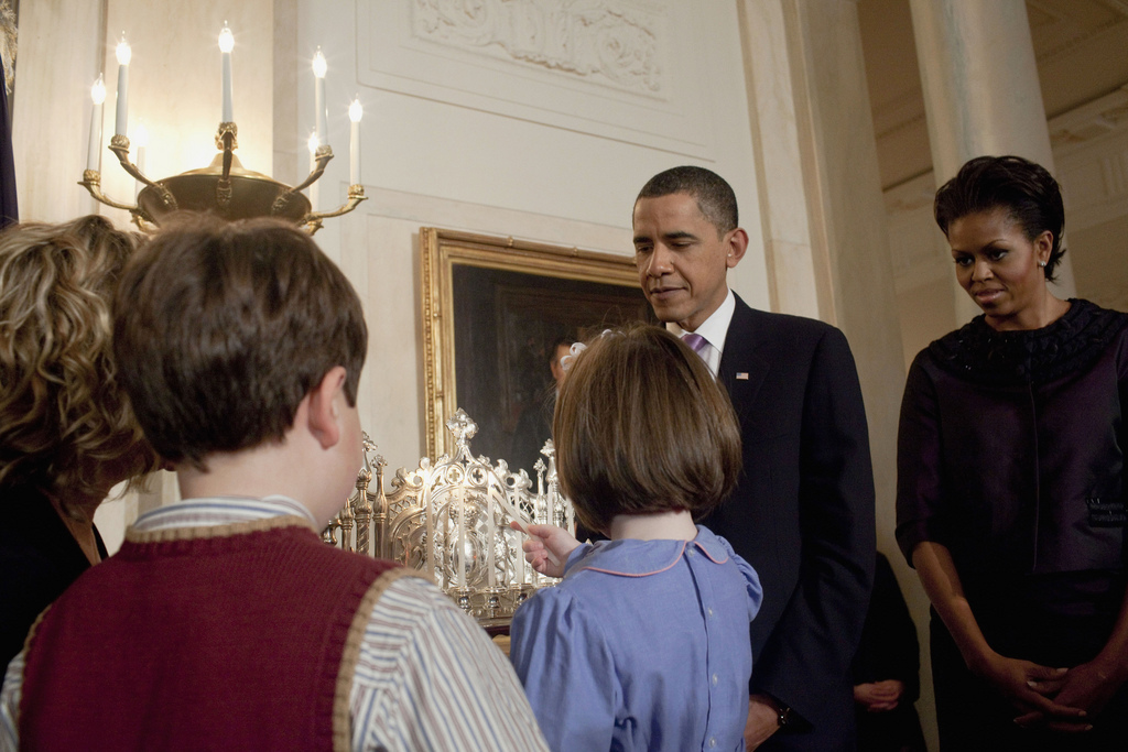 Official White House photo of 2009 White House Hanukkah party. President Barack Obama and First Lady Michelle Obama watch as a child lights the Hanukkah menorah.